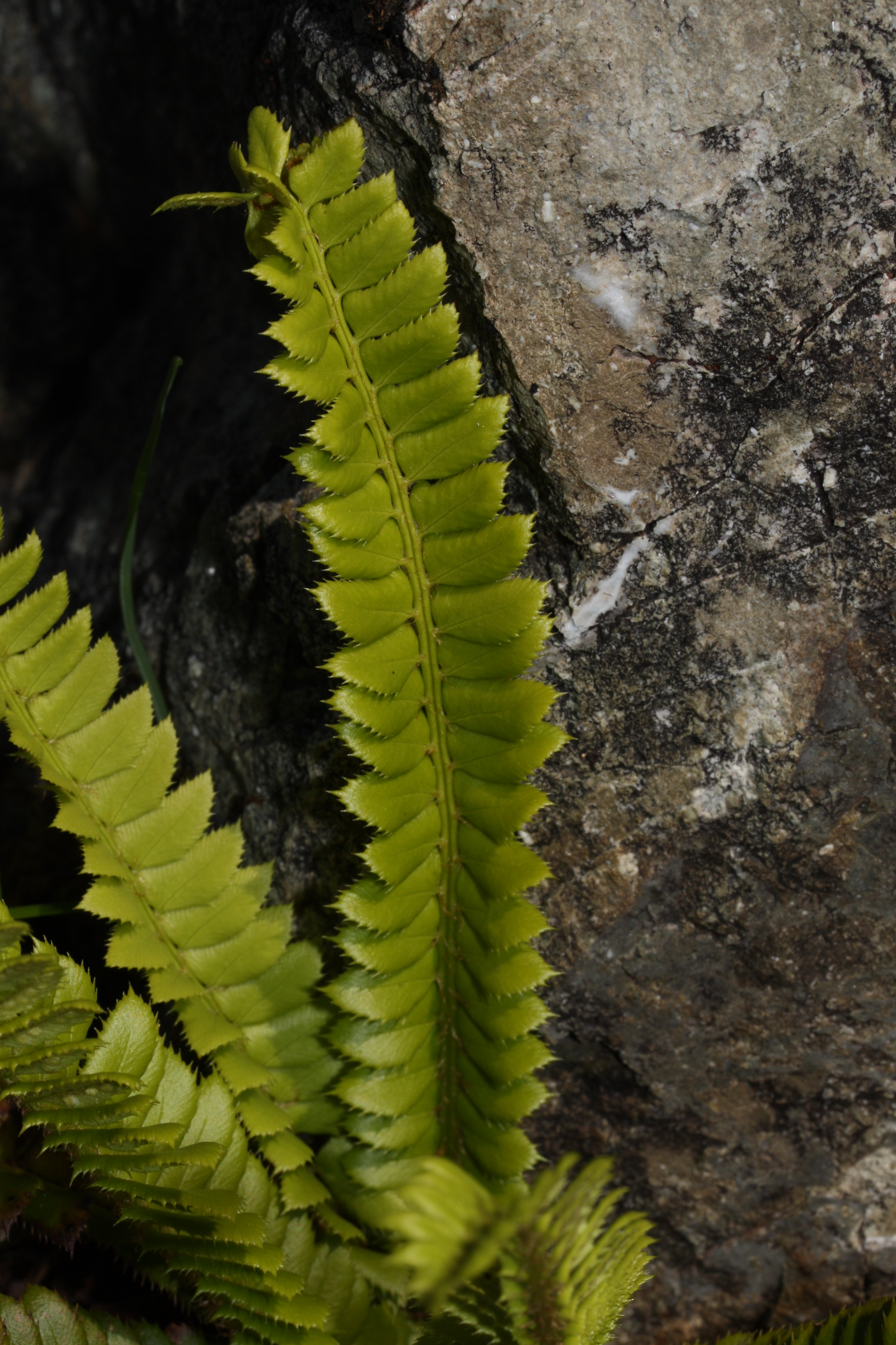 Northern Holly-fern, Mountain Holly Fern